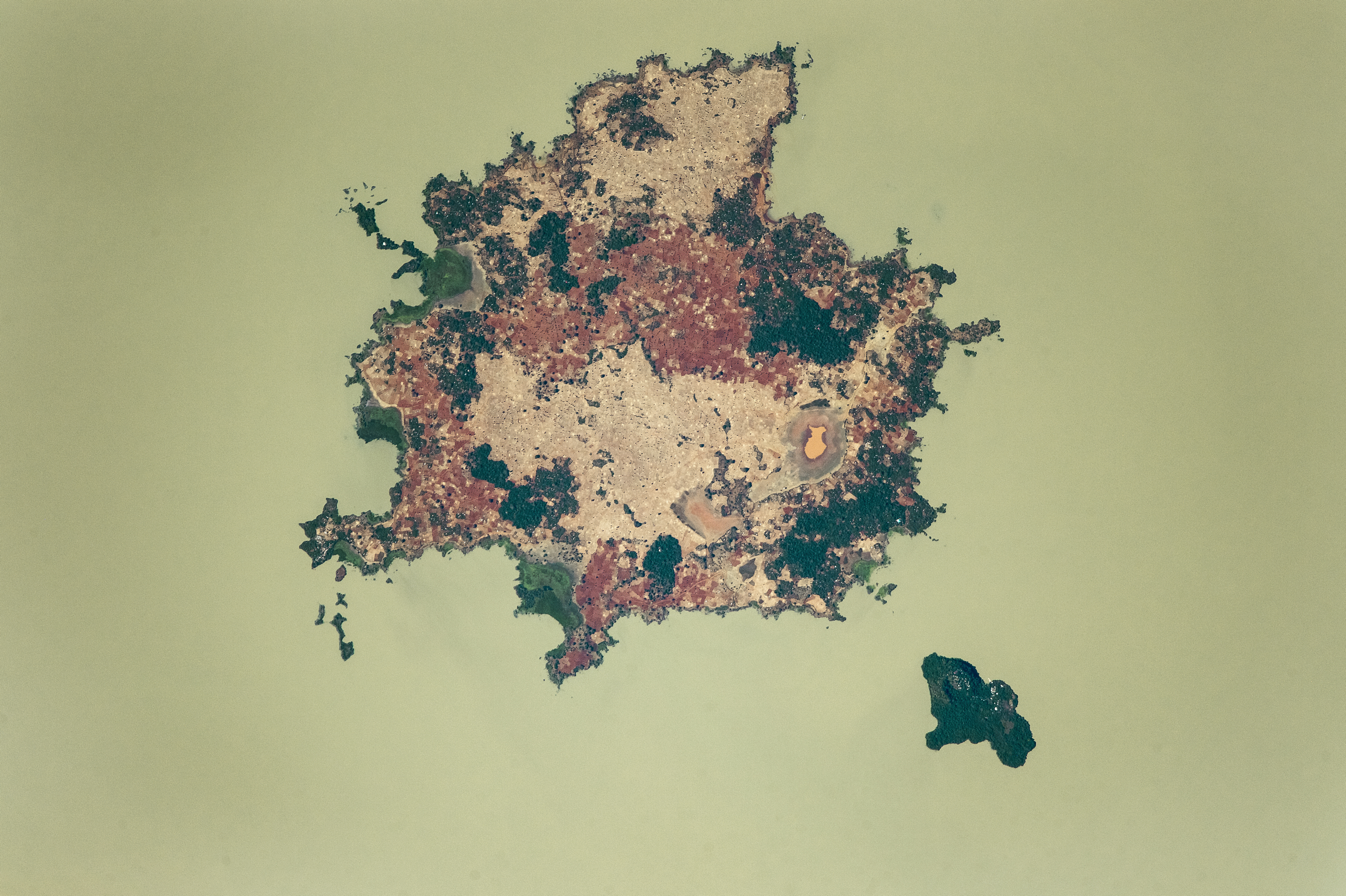 An astronaut aboard the International Space Station took this photograph of Dek and Daga Islands in Lake Tana, Ethiopia. Both islands are volcanic in origin, as is the lake itself. Situated in the Amhara Region of the Ethiopian Highlands, Lake Tana is the largest lake in Ethiopia and acts as the headwaters of the Blue Nile River. Dek Island—at 7 kilometers or 4.4 miles from north to south—is the largest island in Lake Tana. The murky green color of the water results from algal blooms, which that live on nutrients supplied from fertilizer fields, wastewater, and other sources of runoff that create nutrient pollution. The dark green areas in the photo are patches of forest, while the lighter-toned and darker, salmon-colored patches are agricultural fields, which cover 70 percent of Dek Island. It is a prime area for farming because of high-quality volcanic soils, as well as heavy rains due to its location in the Intertropical Convergence Zone (ITCZ). Some of the more common crops are corn and millet, which are mostly consumed by the islanders. Coffee and mangos are the economic mainstays and are shipped to markets on the mainland. Both islands are home to monasteries of the Coptic Church, most famously Narga Selassie on Dek Island and Dega Estefanos on Dega Island. For hundreds of years, the islands have helped protect the monasteries during times of war. Dega Estefanos is the resting place of mummified emperors who ruled Ethiopia (once known as Abyssinia) centuries ago. This long-lens image illustrates the level of detail possible from a handheld digital camera shooting from the space station: the numerous white specks are the reflective tin roofs of houses and buildings.